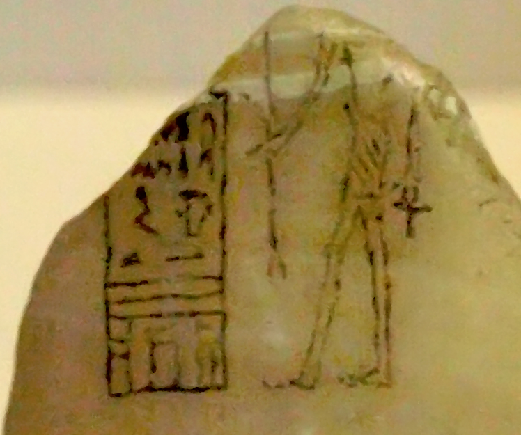 Inscribed calcite vase fragment with the royal name Sekhemib-Perenmmat, thought to have been used by the pharaoh Peribsen early in his reign. Circa 2800 BC, 2nd dynasty. EA 52862.